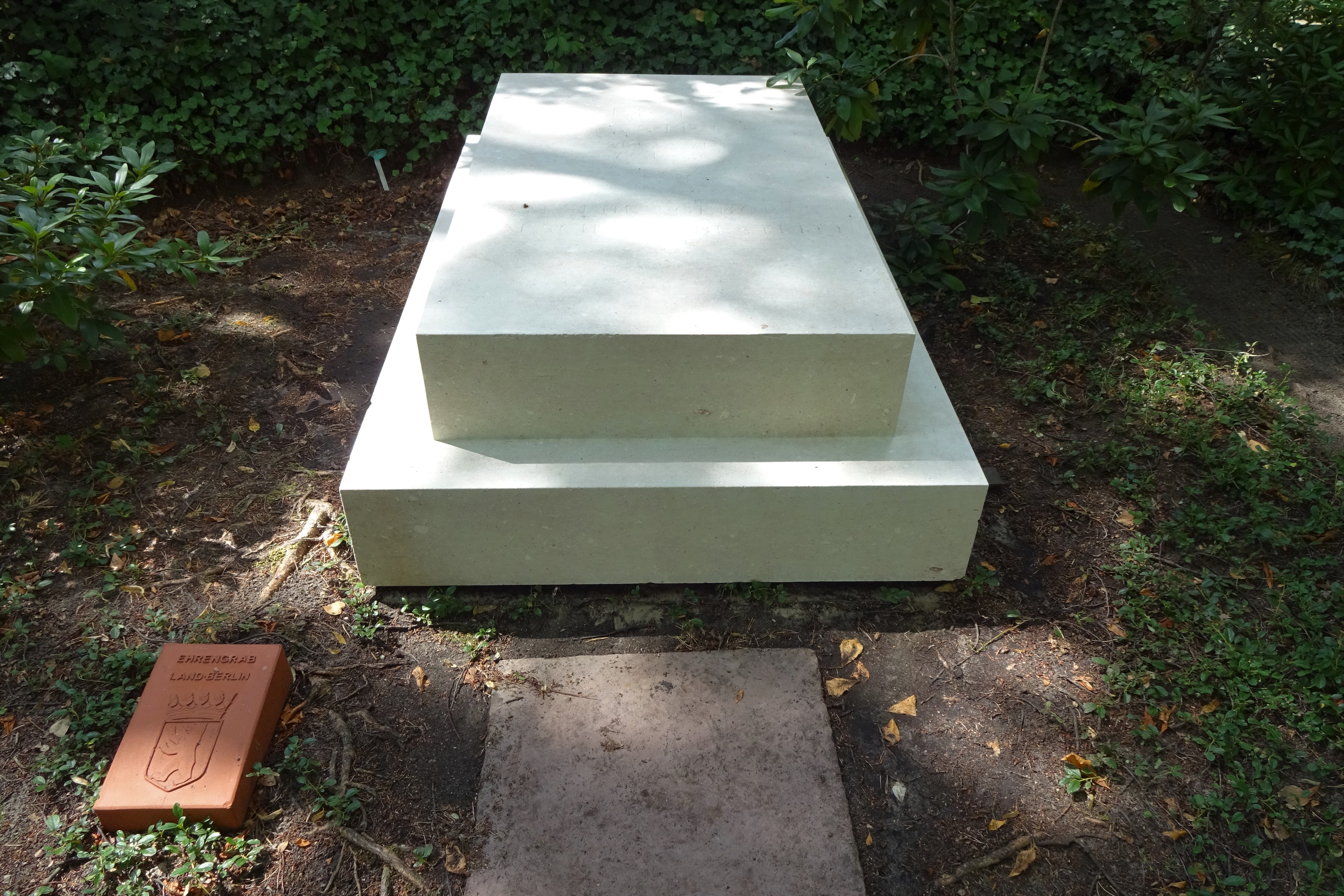 Grave of German publisher and art dealer Paul Cassirer in Friedhof Heerstraße in Berlin-Westend. The designer was Georg Kolbe